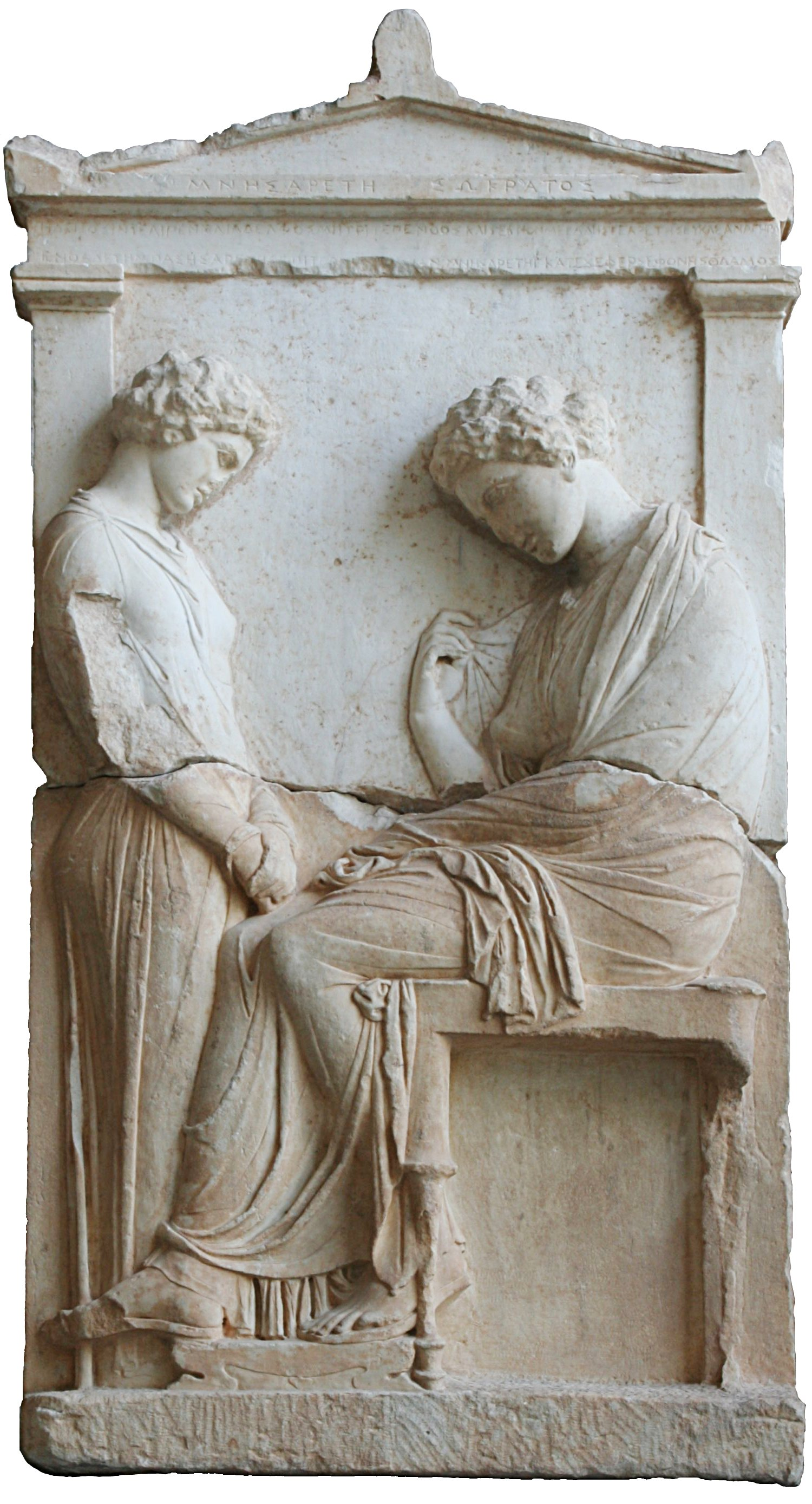 Funerary stele of Mnesarete. A young girl (left) is facing the dead woman. Inscription: ΜΝΗΣΑΡΕΤΗ ΣΩΚΡΑΤΟΣ (“Mnesarete [the daughter] of Socrates”). Attica, ca. 380 BC.